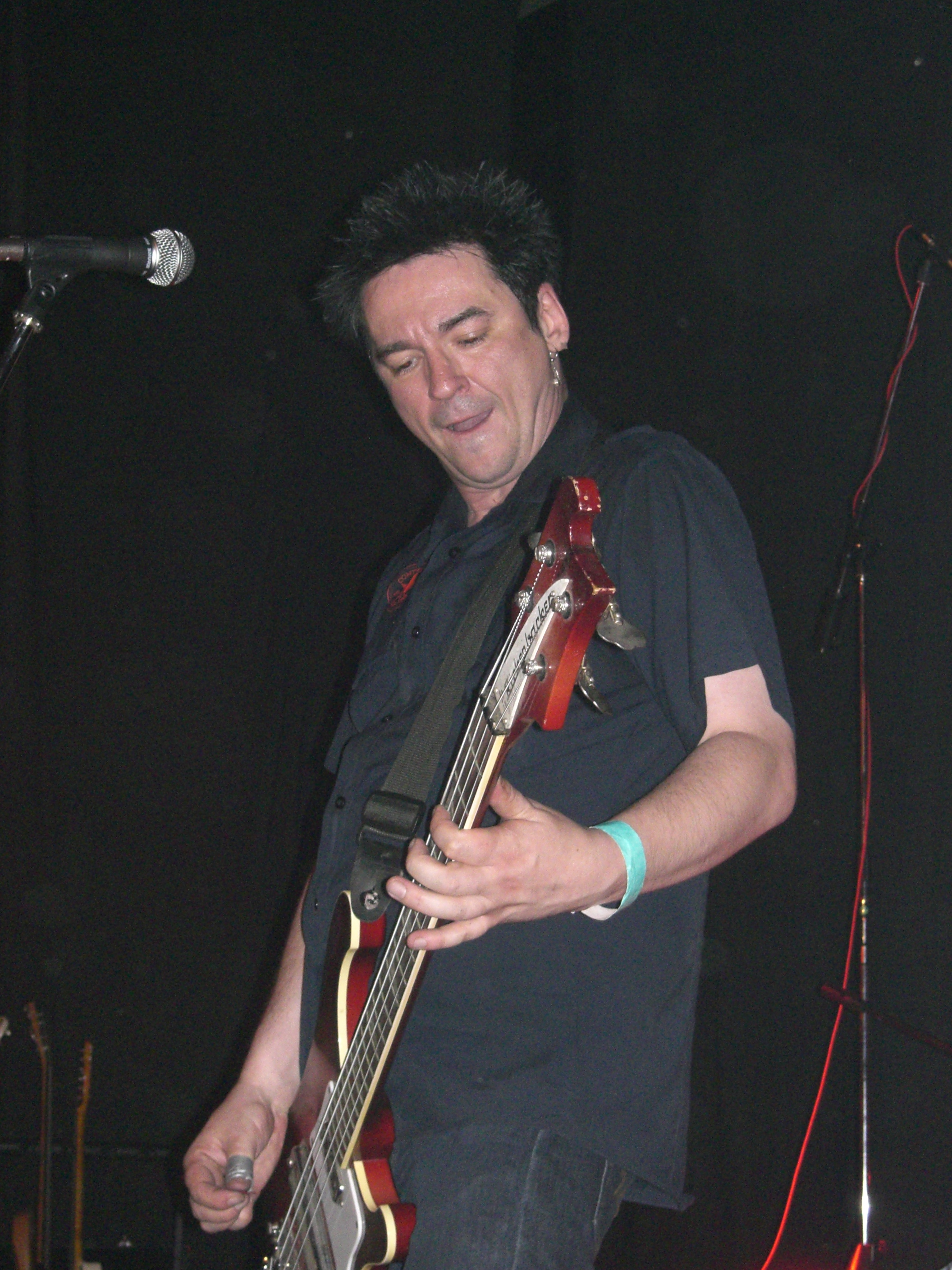 Punk music grup Plexis.